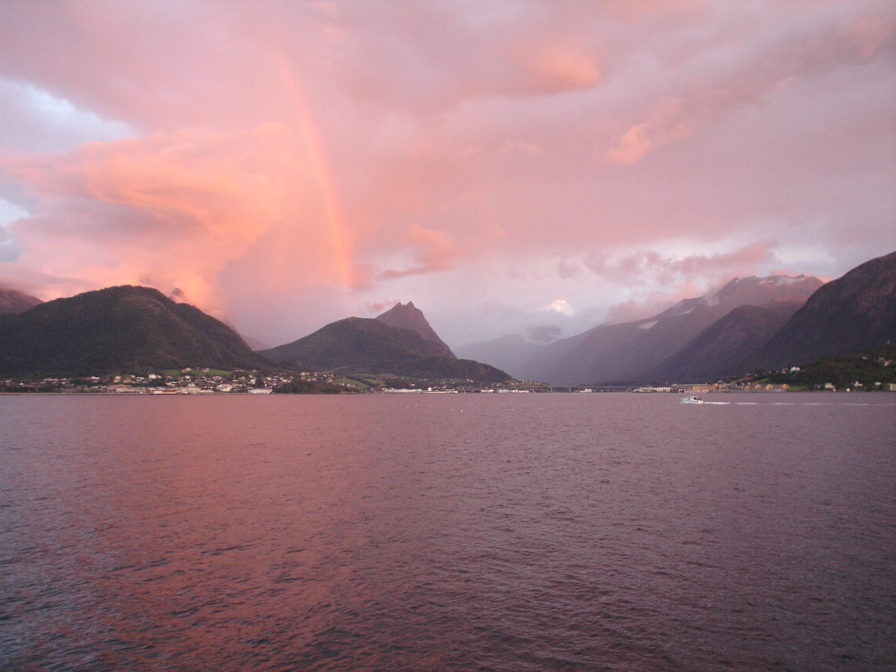 Sykkylven- the town between fjord and mountain